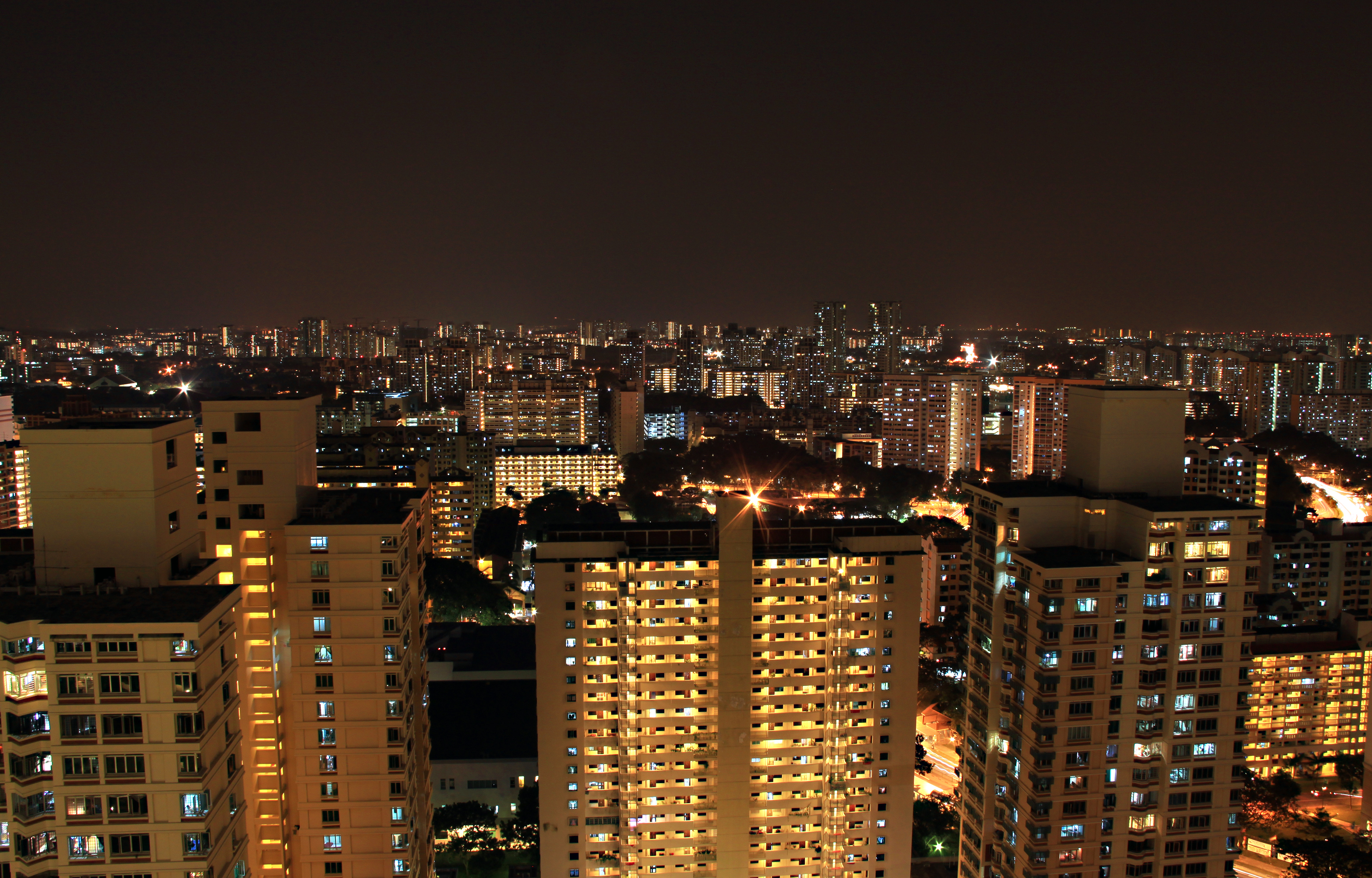 A view of Toa Payoh housing estate, Singapore.